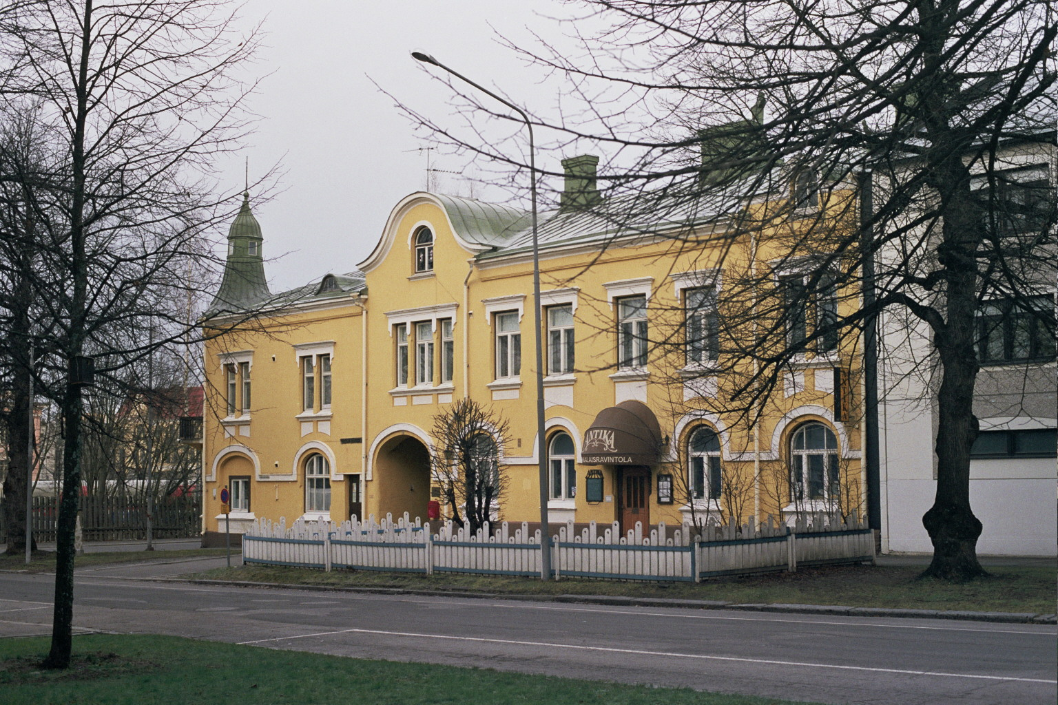 An old building at Väinölänkatu 1 in Tammela, Tampere, Finland. Occupying the building is at least Antika, a Greek style restaurant.